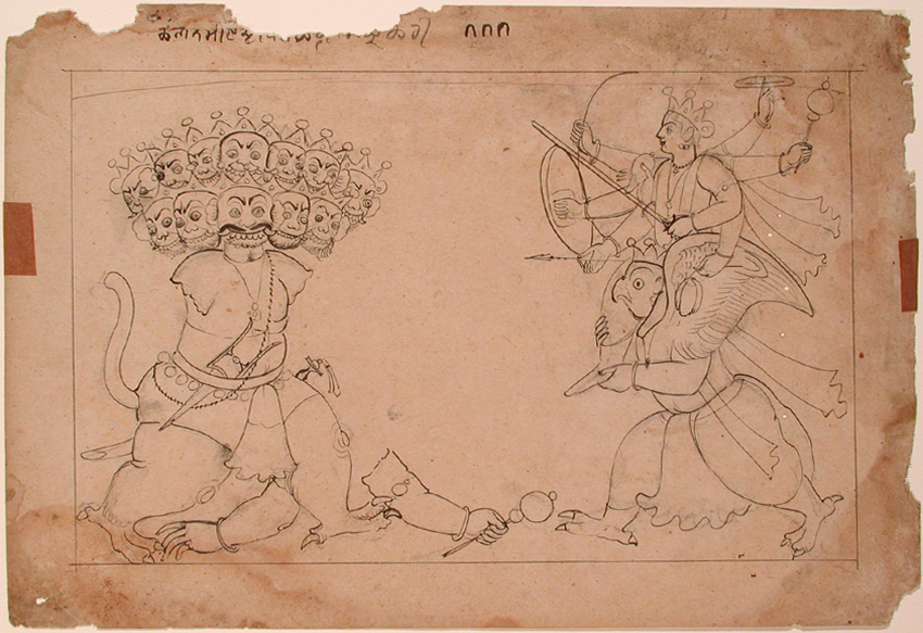 Series Title: The Ancient Text of the Lord Suite Name: Bhagavata Purana Display Artist: Manaku Creation Date: ca. 1740 Display Dimensions: 8 21/32 in. x 13 in. (22 cm x 33 cm) Credit Line: Edwin Binney 3rd Collection Accession Number: 1990.1237 Collection: The San Diego Museum of Art